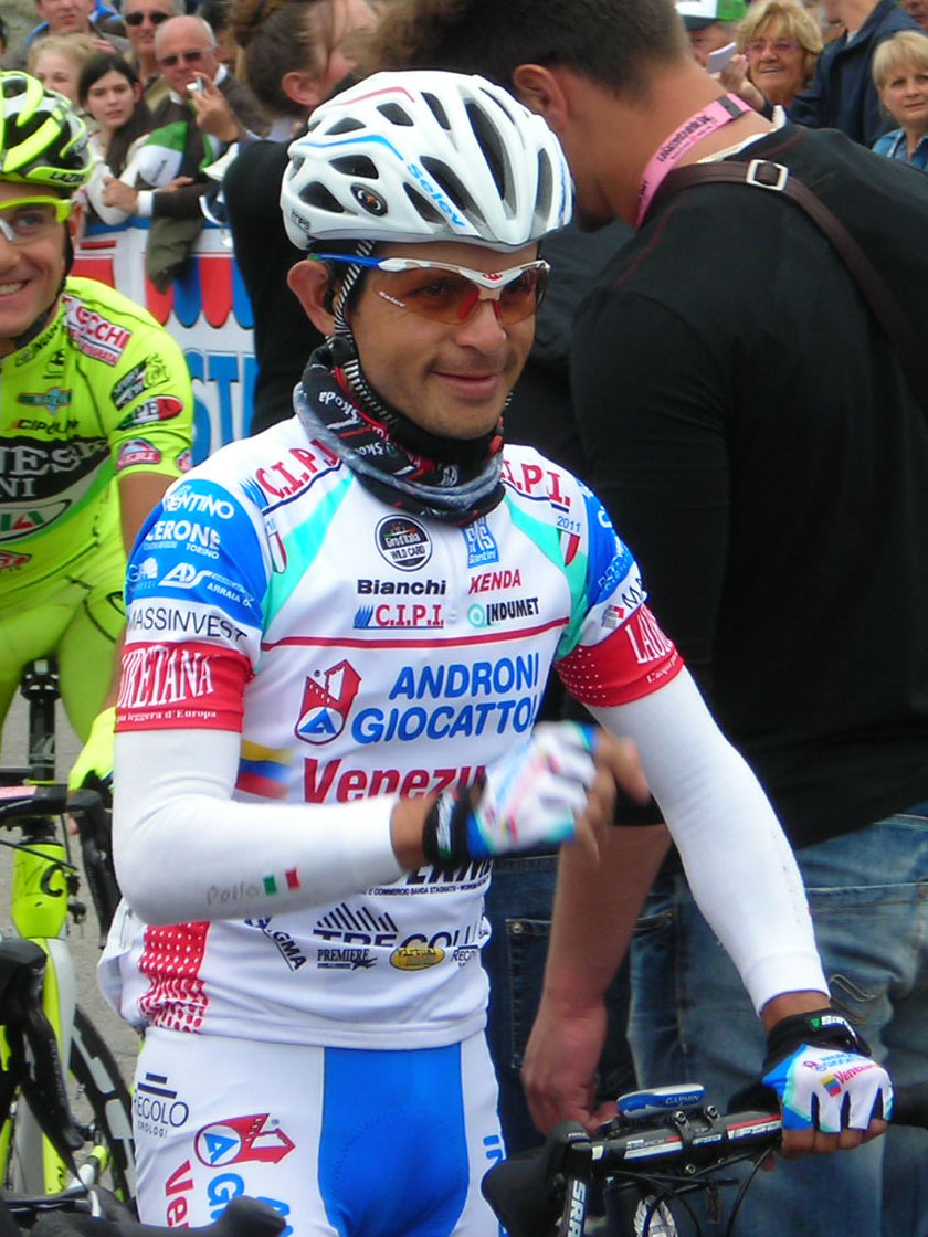 José Rujano in Savona, start of the 13th stage of 2012 Giro d'Italia